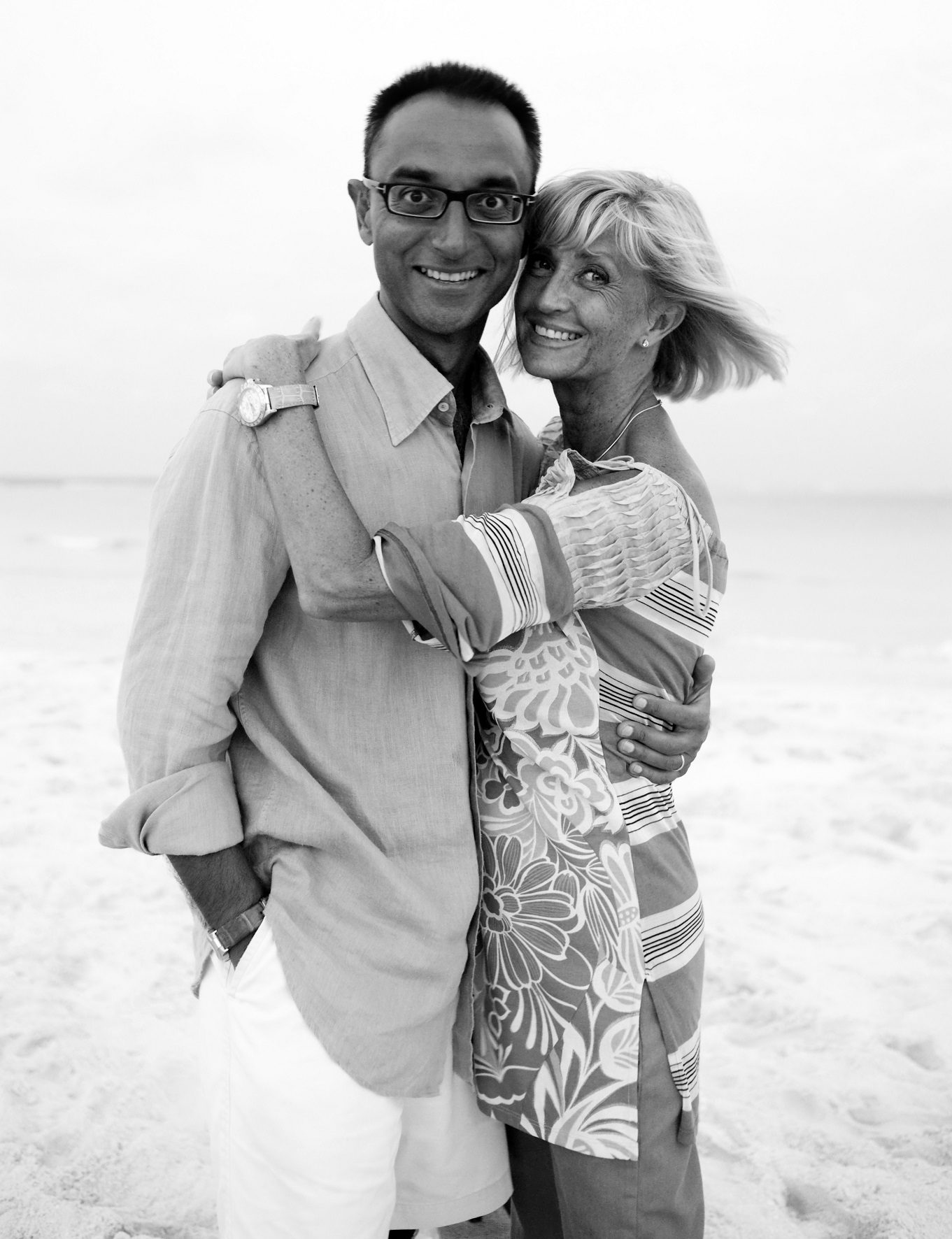 A photo of Sonu and Eva Shivdasani on the beach at Soneva Fushi taken by Antonina Gern